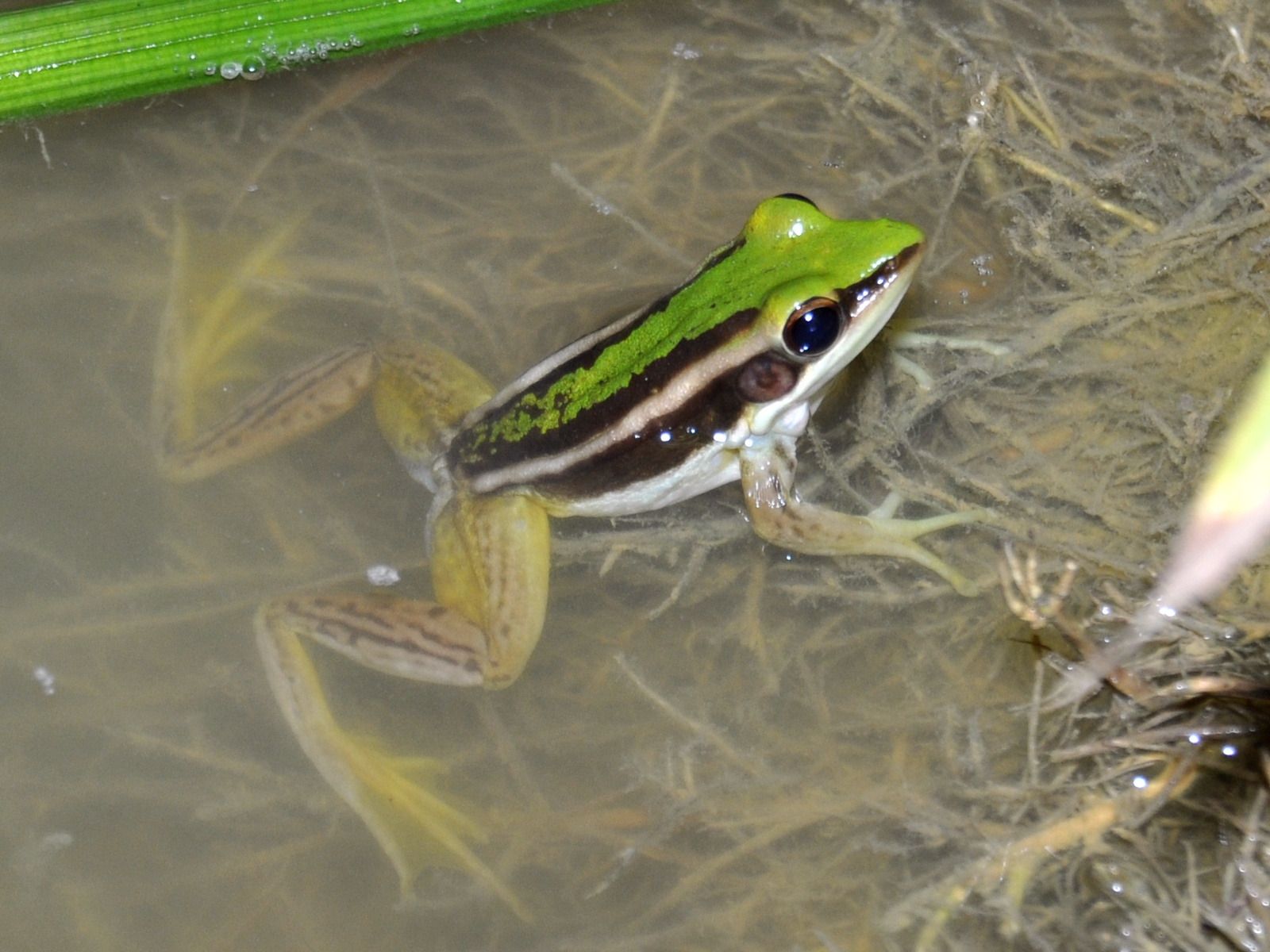 Hylarana erythraea, from Jambi, Indonesia